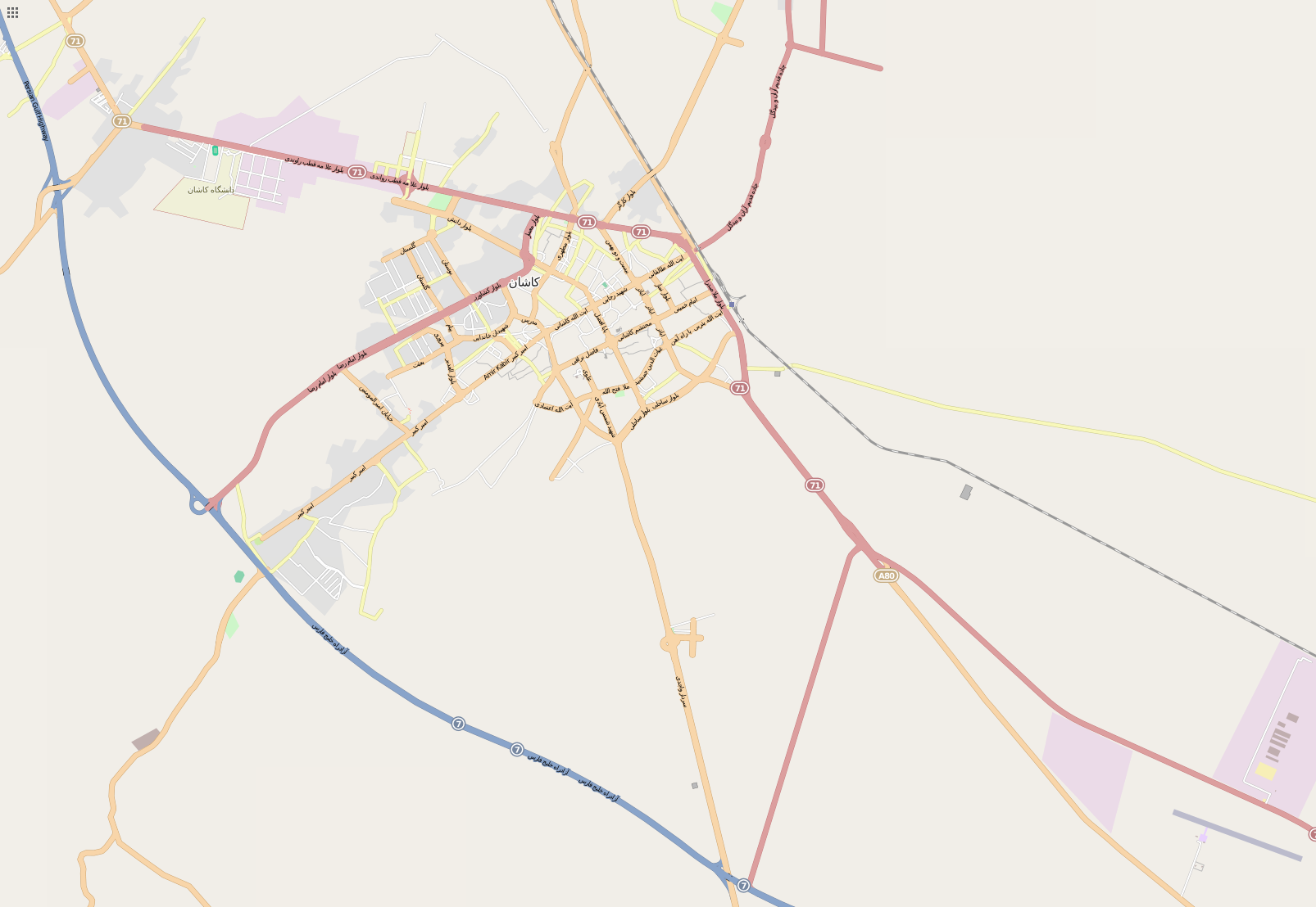 This map may be incomplete, and may contain errors. Don't rely solely on it for navigation.